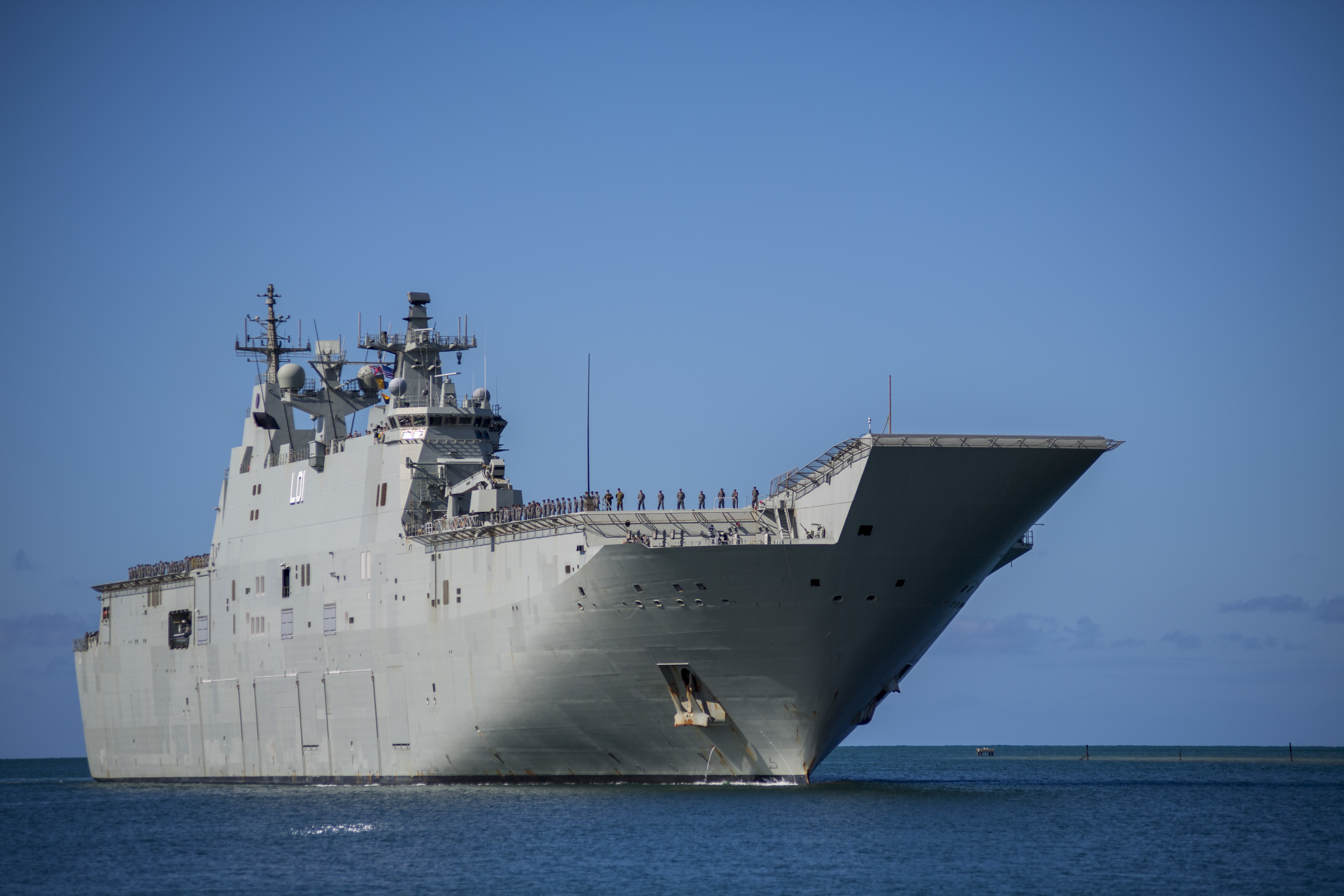 180625-N-NU281-0024 PEARL HARBOR (June 25, 2018) Royal Australian Navy landing helicopter dock ship HMAS Adelaide (L01) arrives at Joint Base Pearl Harbor-Hickam in preparation for Rim of the Pacific (RIMPAC) exercise. Twenty-six nations, more than 45 ships and submarines, about 200 aircraft, and 25,000 personnel are participating in RIMPAC from June 27 to Aug. 2 in and around the Hawaiian Islands and Southern California. The world’s largest international maritime exercise, RIMPAC provides a unique training opportunity while fostering and sustaining cooperative relationships among participants critical to ensuring the safety of sea lanes and security of the world’s oceans. RIMPAC 2018 is the 26th exercise in the series that began in 1971. (U.S. Navy photo by Mass Communication Specialist 2nd Class Justin R. Pacheco)